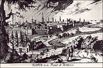 Illustration of Skopje